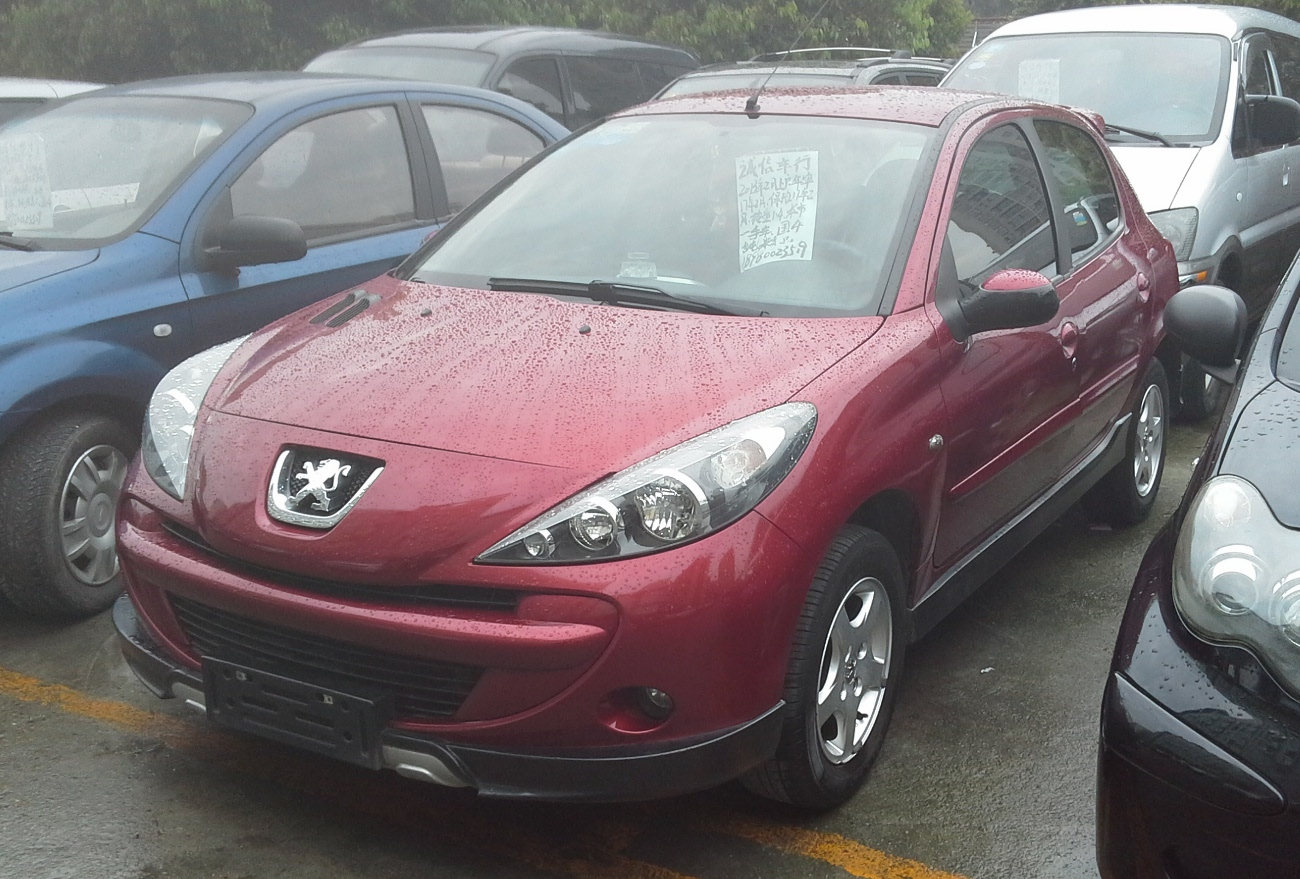 Peugeot 207 Cross photographed in Chengdu, Sichuan province, China.